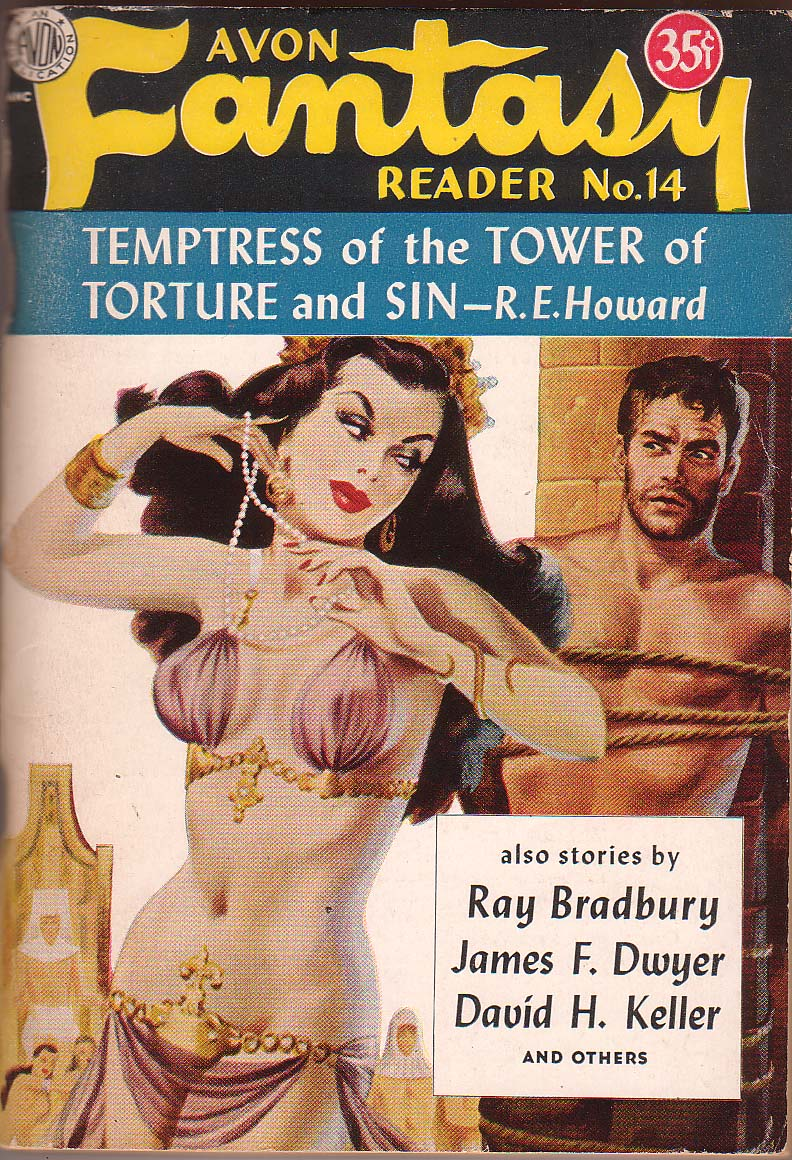 Cover of the fantasy fiction magazine Avon Fantasy Reader no. 14 (1950) featuring "Temptress of the Tower of Torture and Sin" by Robert E. Howard.